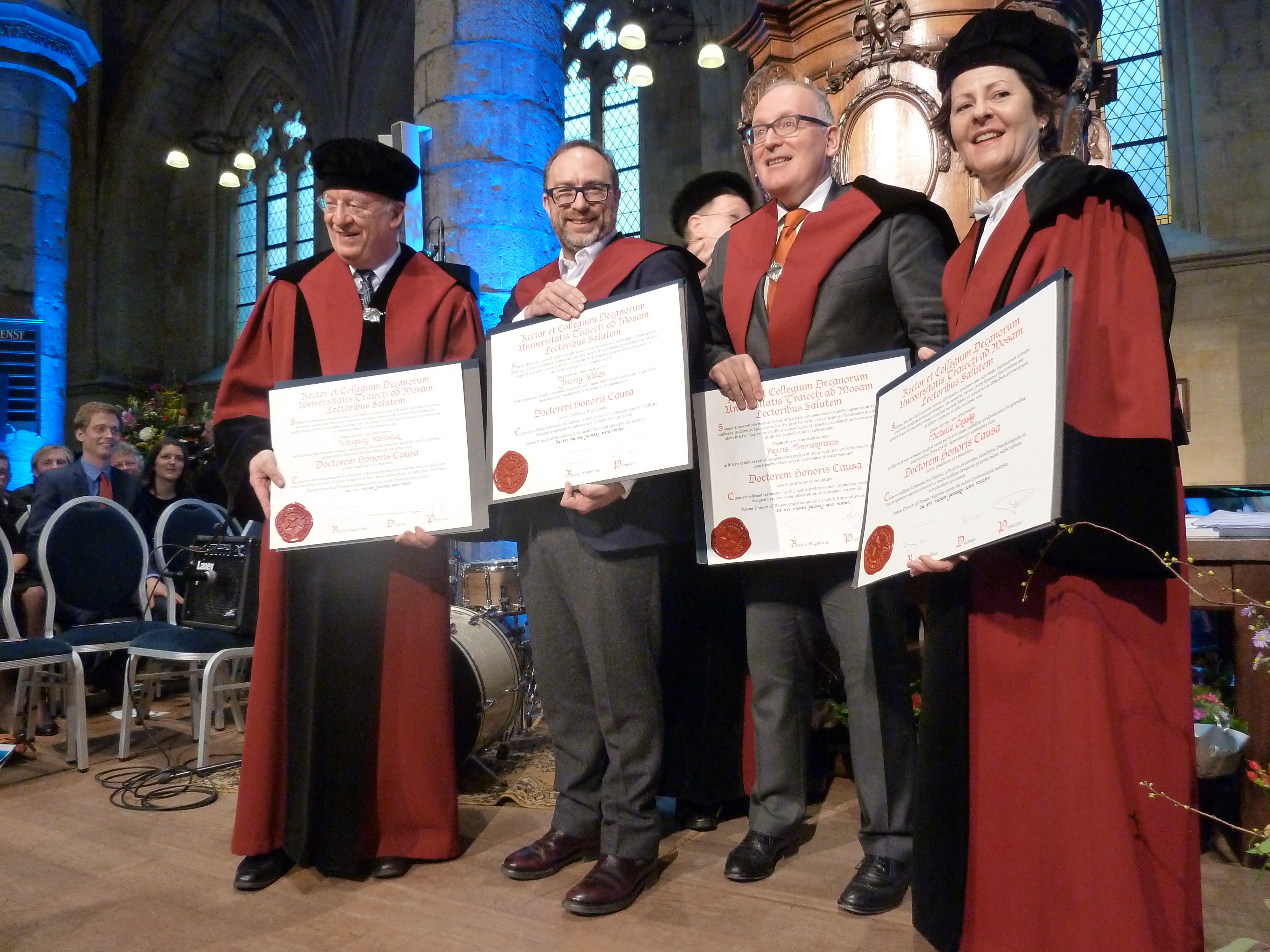 Wolfgang Wahlster, Jimmy Wales, Frans Timmermans and Michelle Craske receive honorary doctorates from Maastricht University in 2015